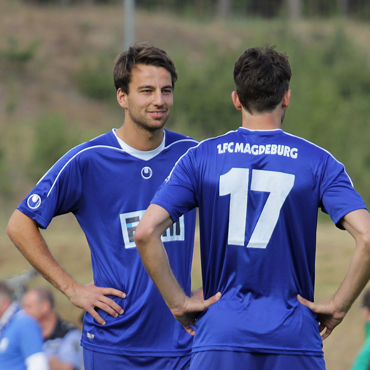 Christian Beck